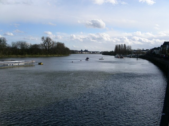 The Thames, looking towards Barnes Photographed from the Thames Path at Chiswick